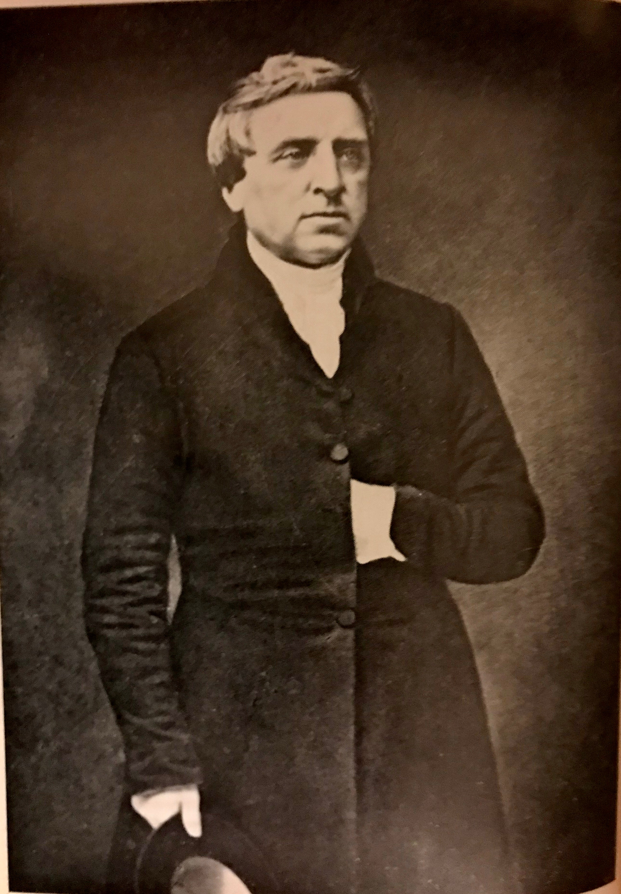 Early photograph of Fr. William Matthews of Maryland taken by Mathew Brady circa 1845